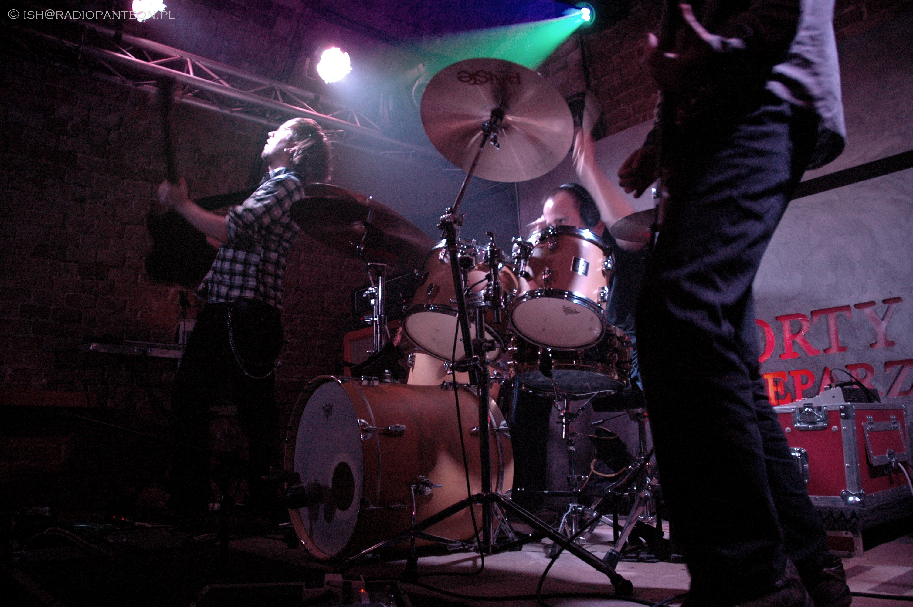 Tides from Nebula @ Forty Kraków, 04.11.2010 / .11